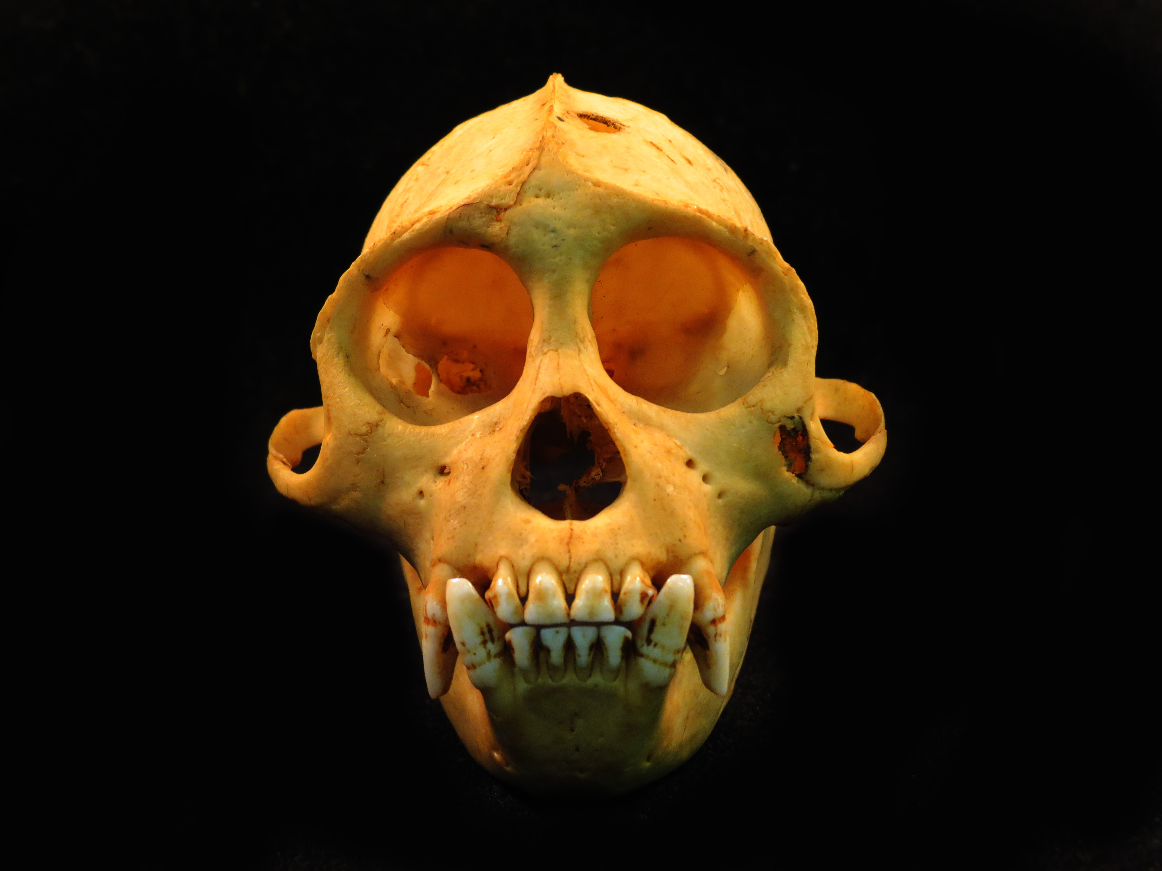 Skull of Sapajus nigritus robustus male from Colatina, Espírito Santo, Brazil. University of São Paulo Zoology Museum (Museu de Zoologia da USP)